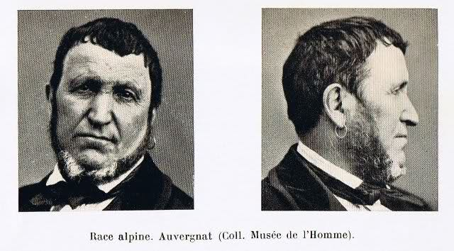 A person of the Alpine (Alpinoid) type - Caucasoid race